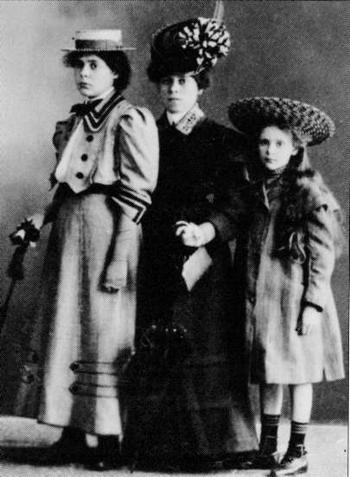 Family photo of Lilya Brik, her mother and sister Elsa Triolet in 1906.